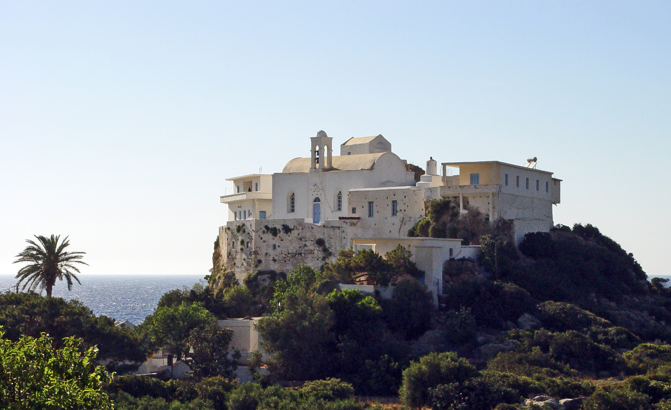 Greece, Crete, monastery Hrisoskalitissas